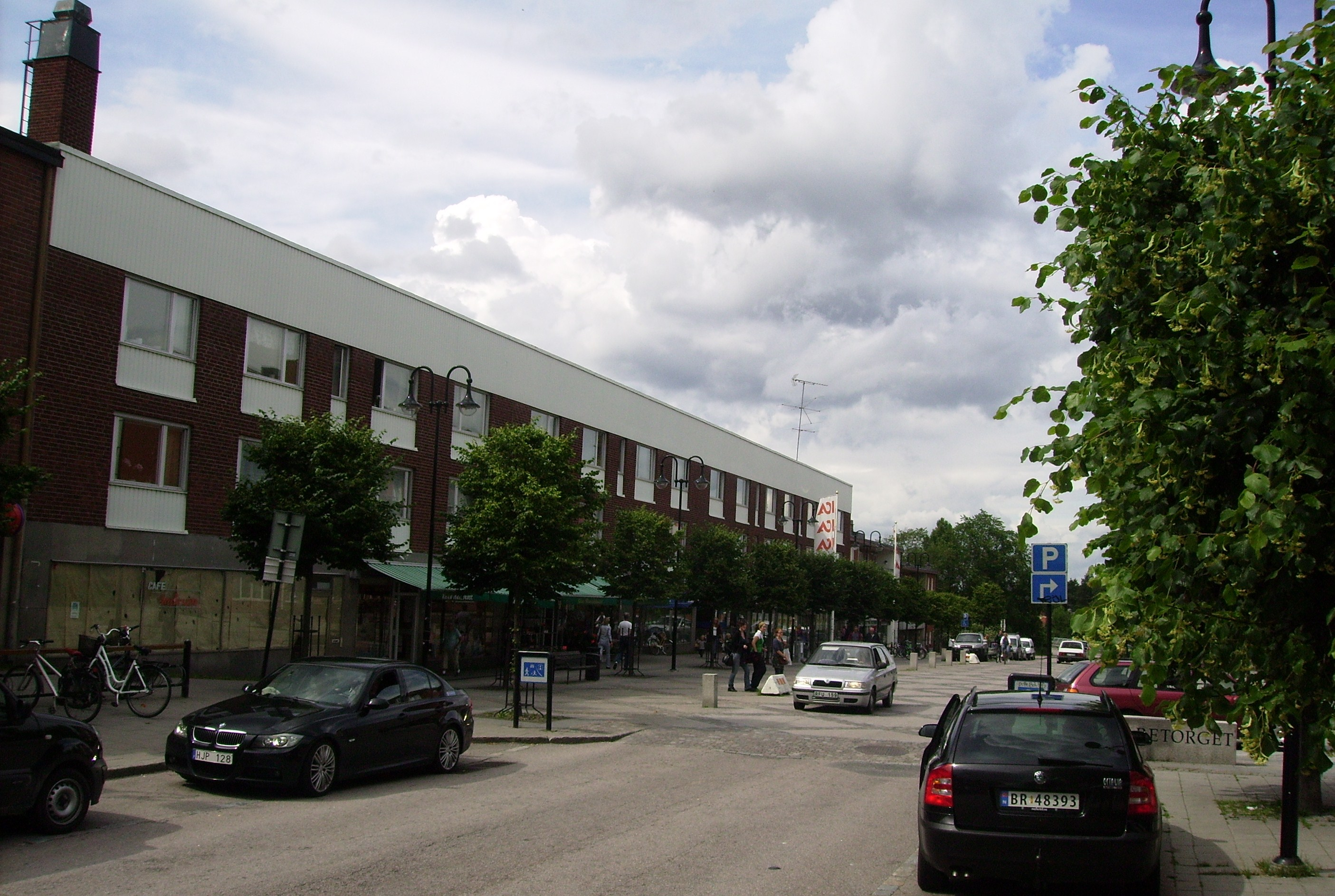 Picture of Storgatan in Järna